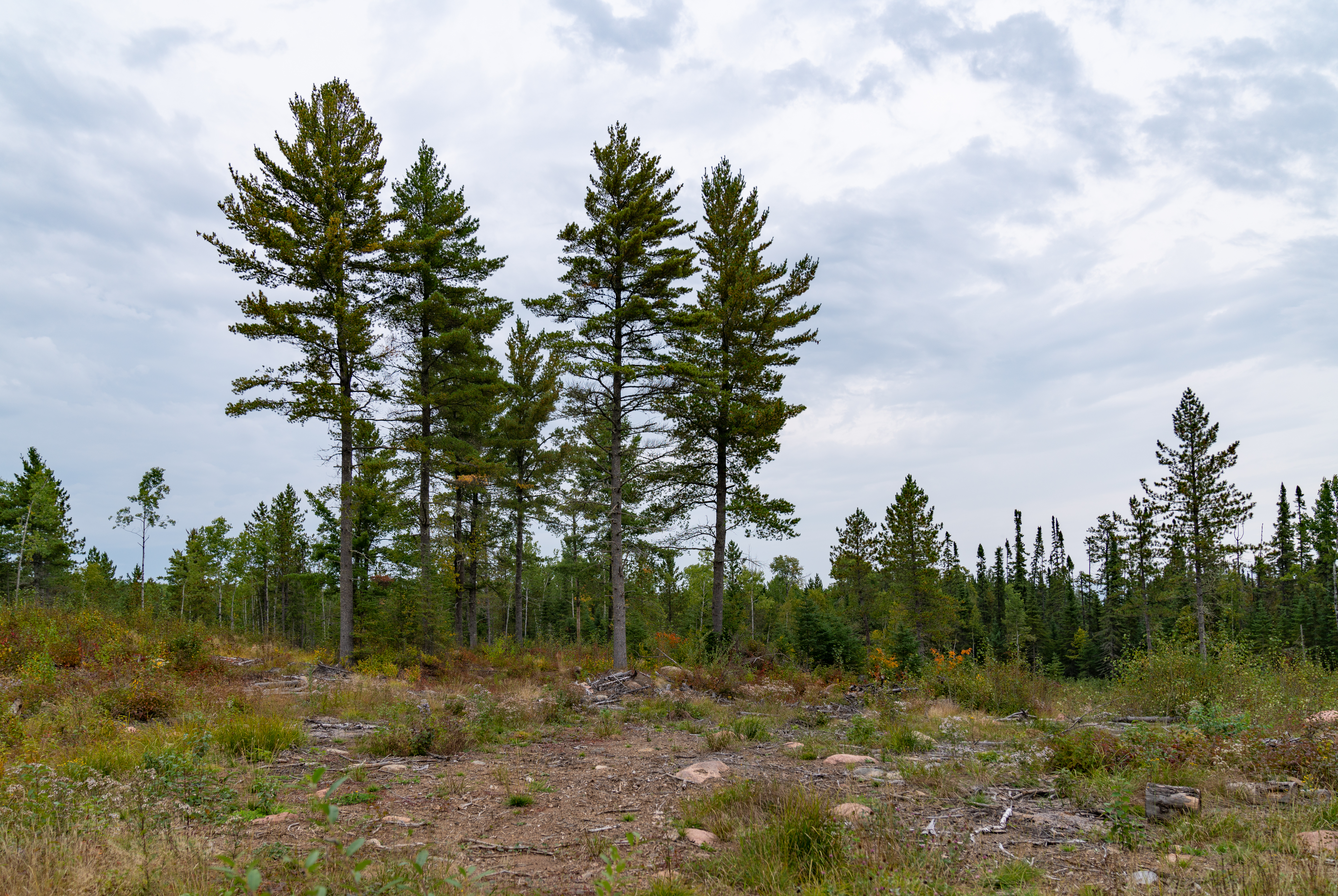 The aftermath of the timber and logging industry's deforestation along Powers Lake Road in the Superior National Forest of Northern Minnesota.